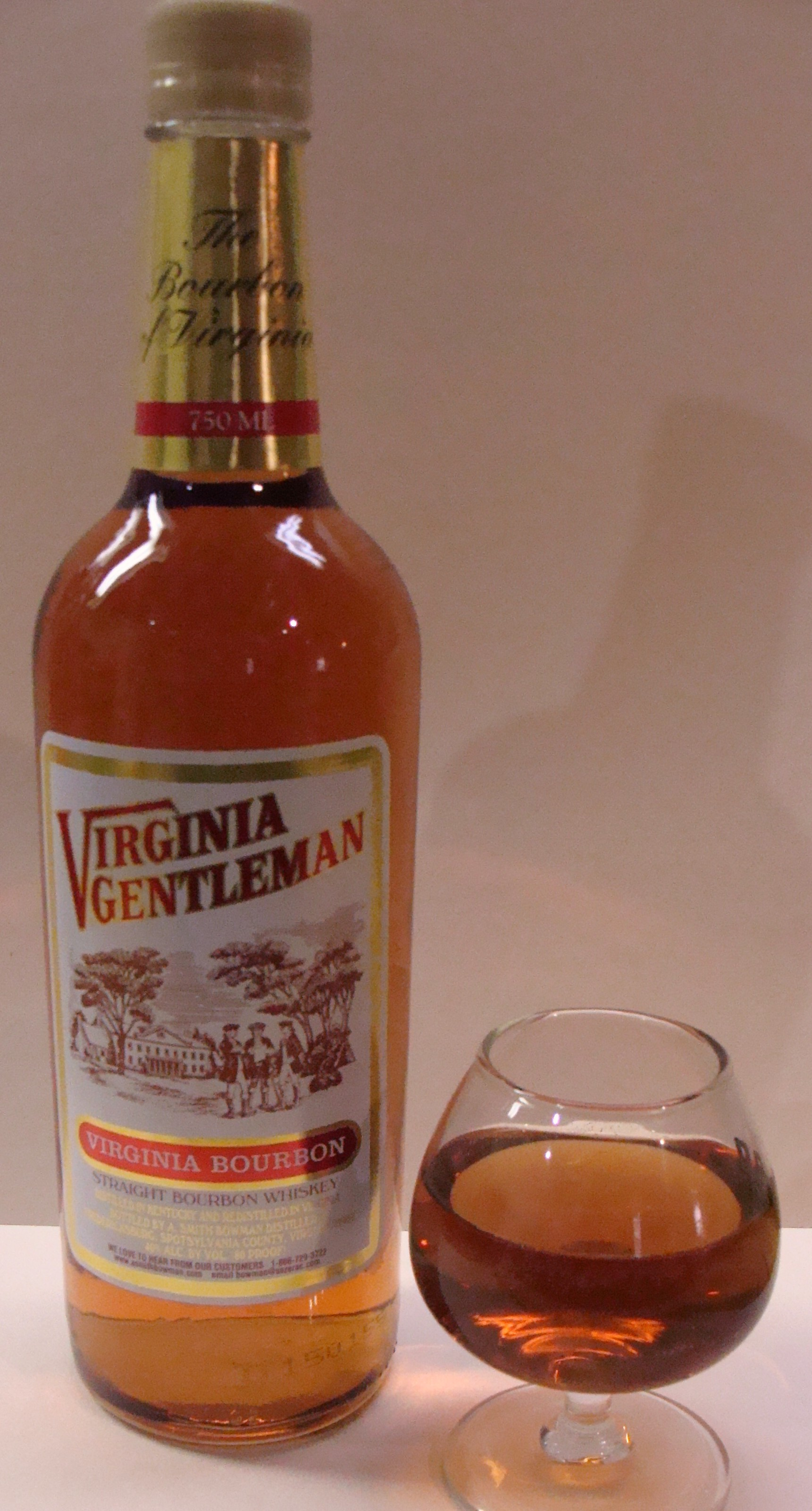 My Own Work